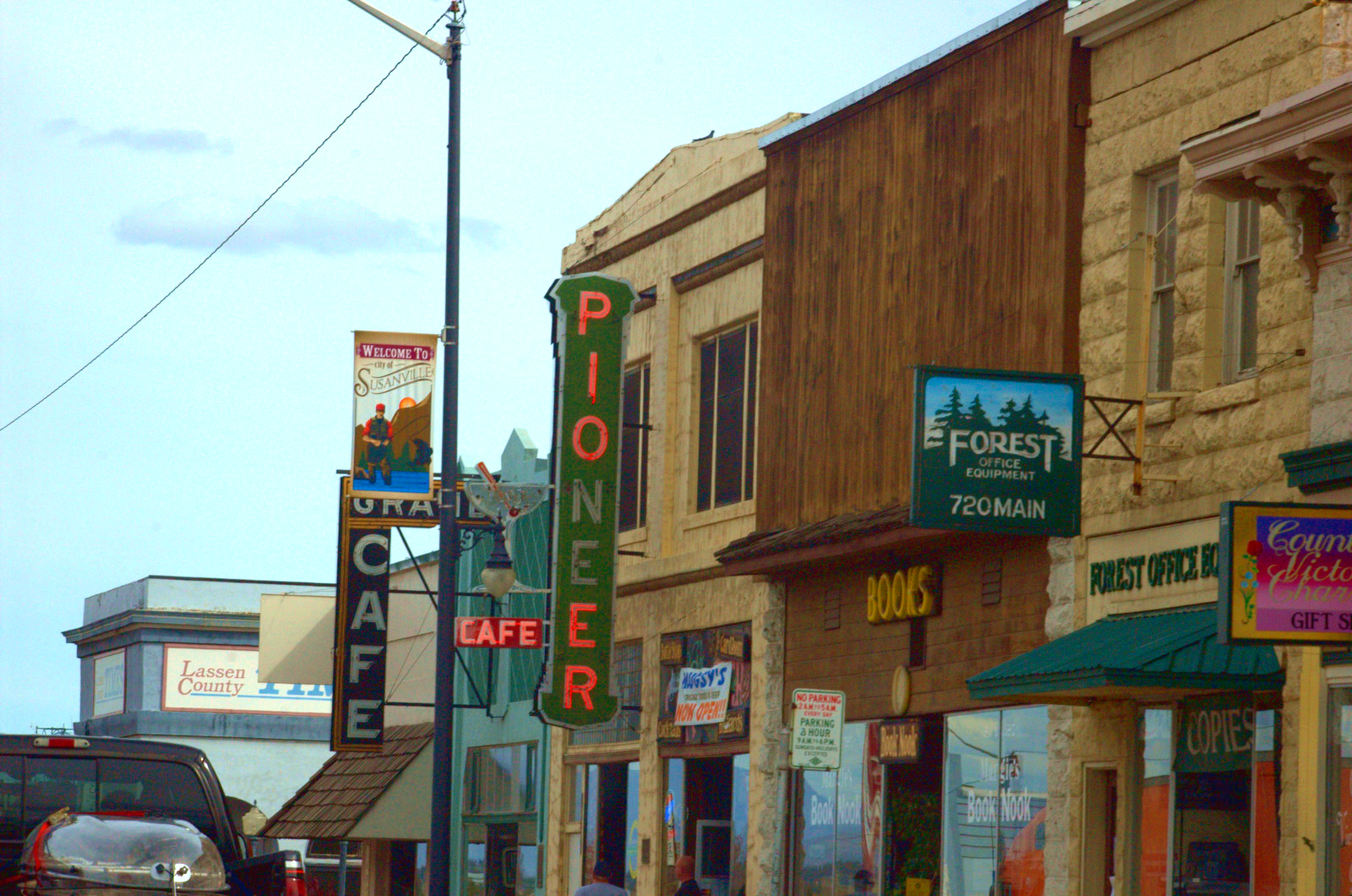 Downtown Susanville, California